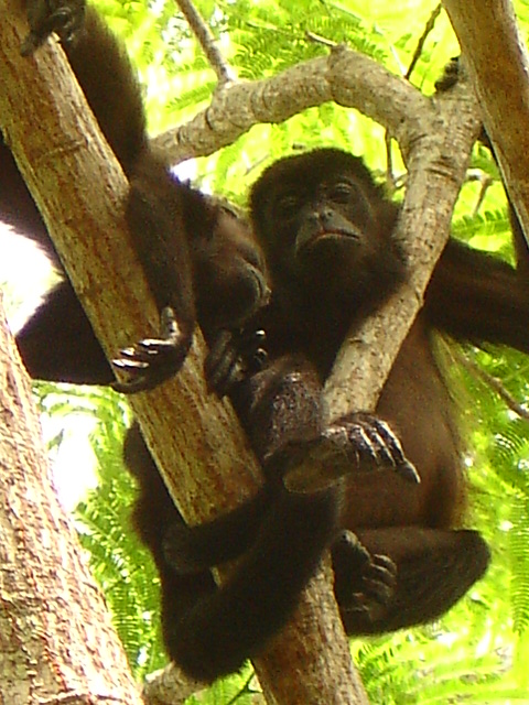 Two mantled howlerss in a tree. Taken in Costa Rica.